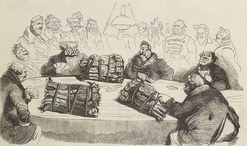 Serfdom in Russia. Caricature by Gustave Doré